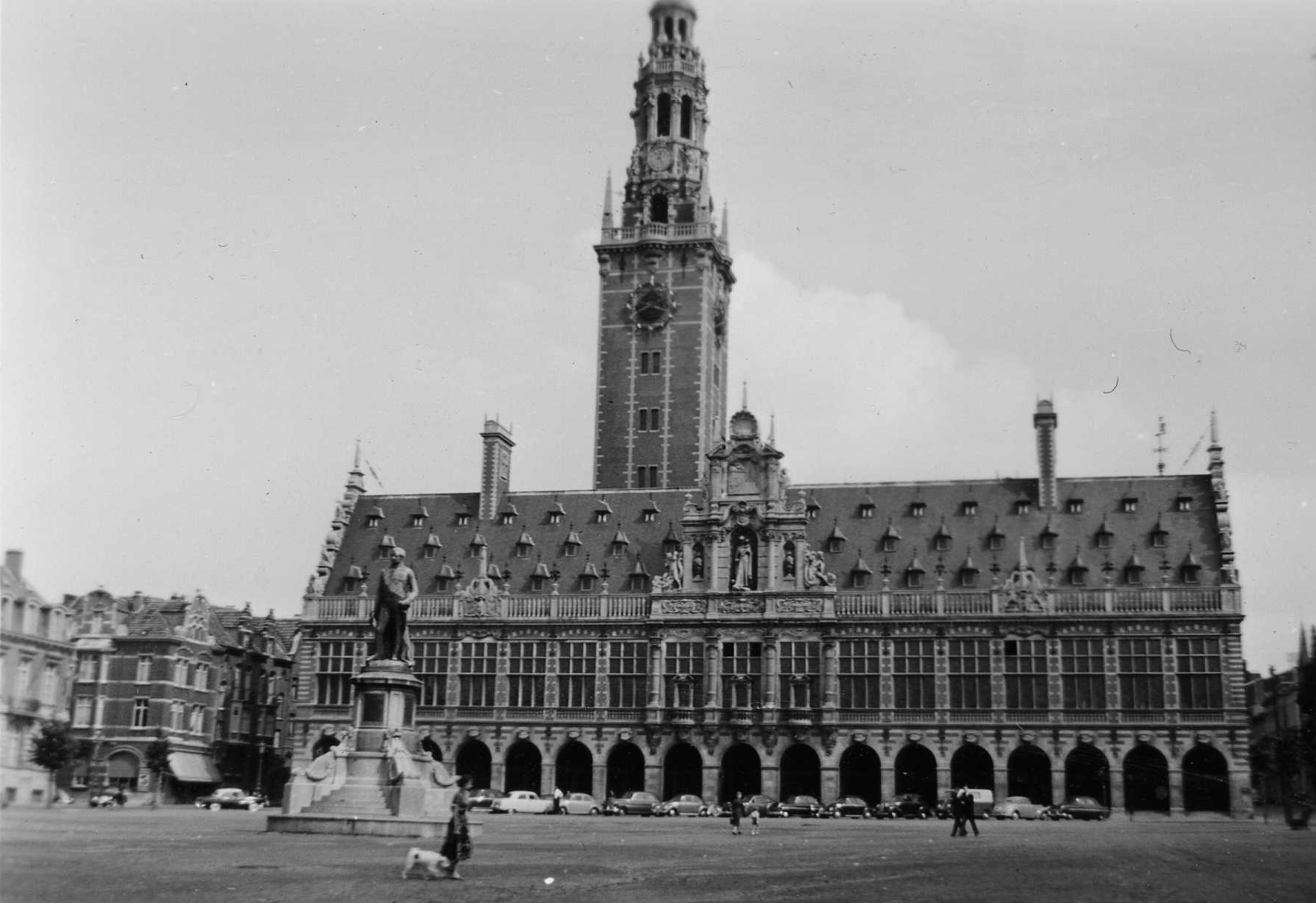 University of Leuven in 1957.